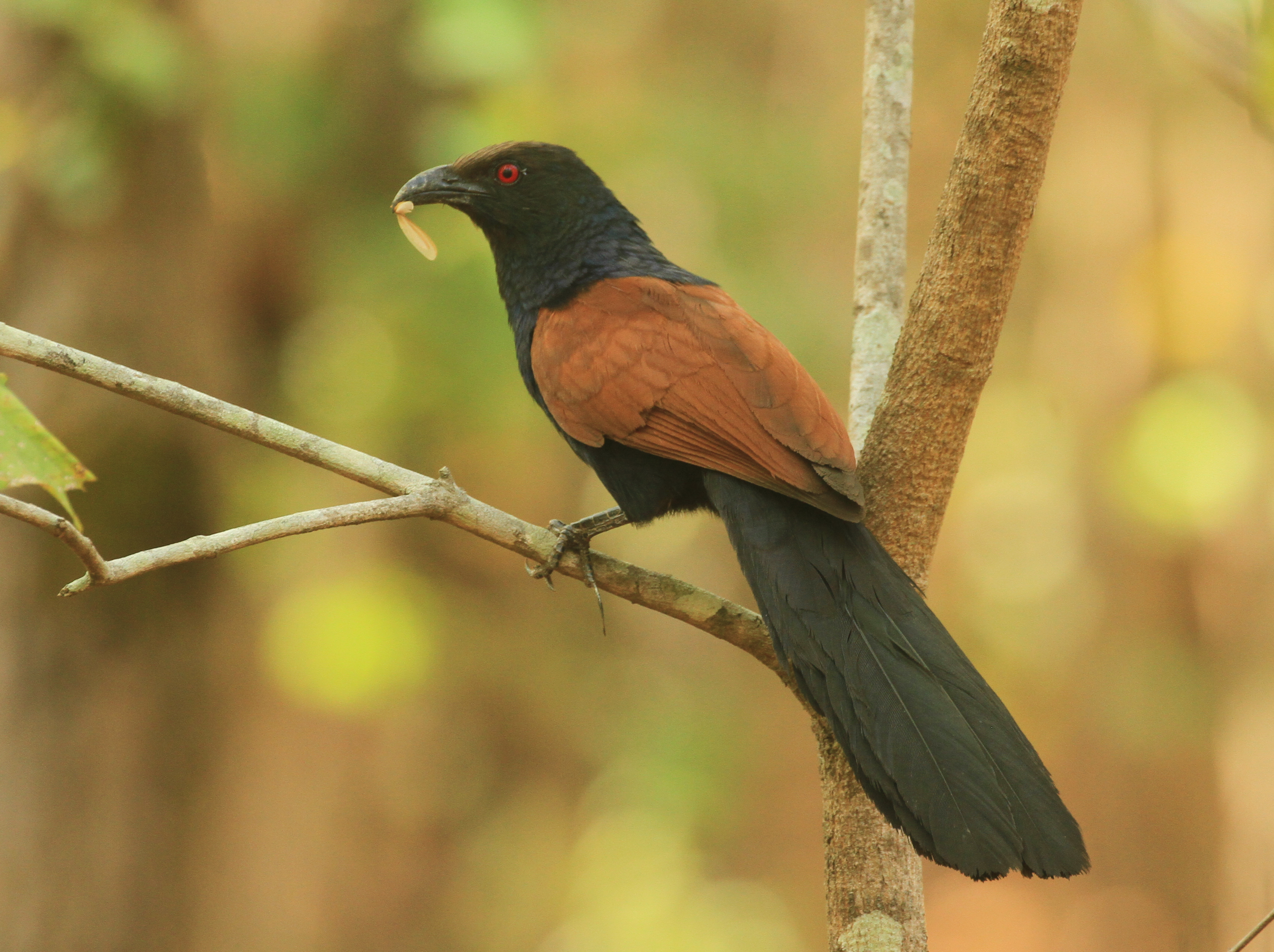 David V Rajus Photos